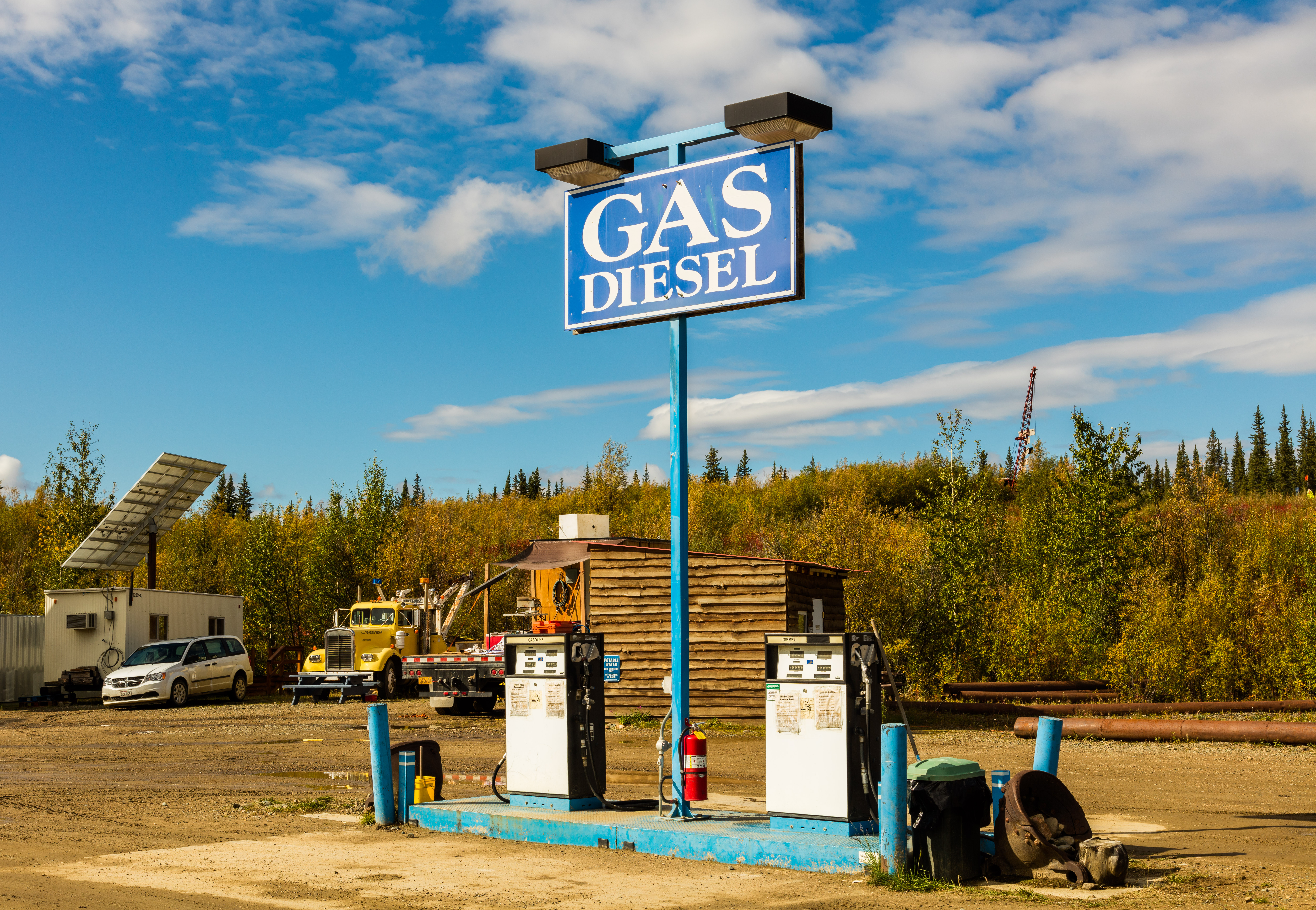 Gas station, Chicken, Alaska, USA